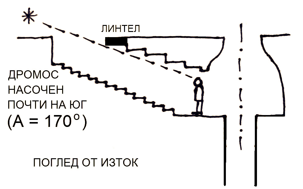 Garlo Nuraghe lntl2